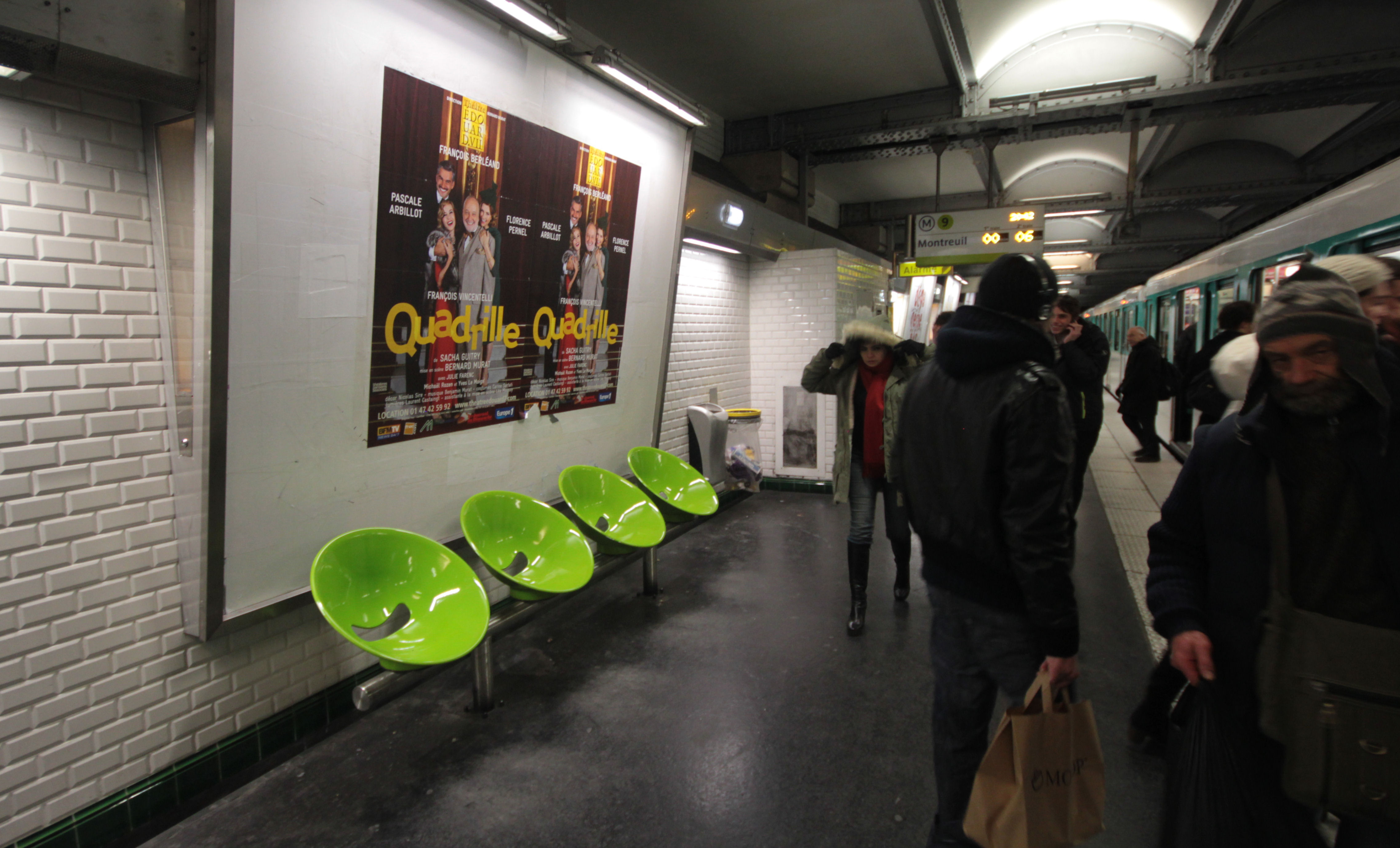 Metro station La Muette on Parisian metro line 9